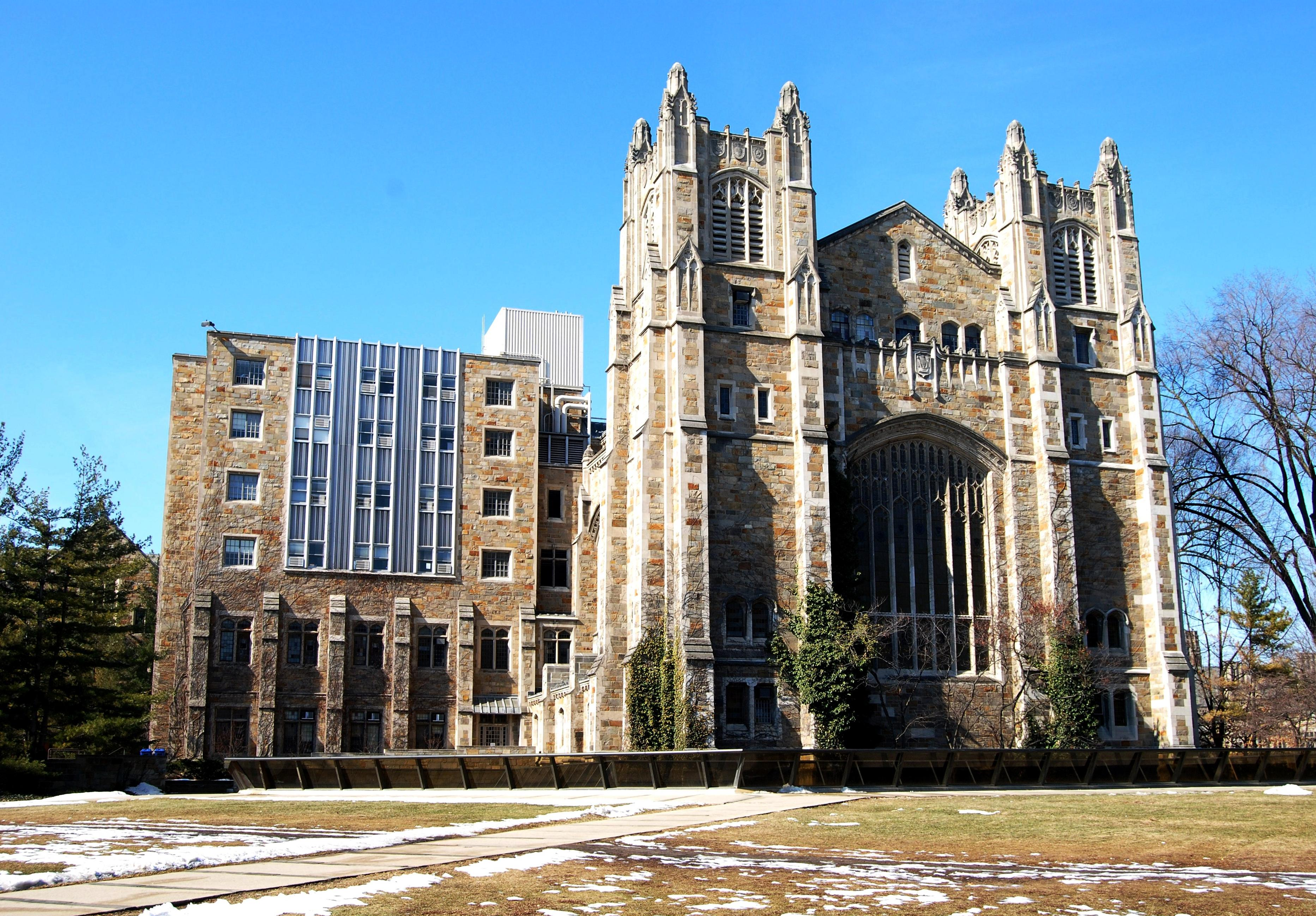 University of Michigan Law Library